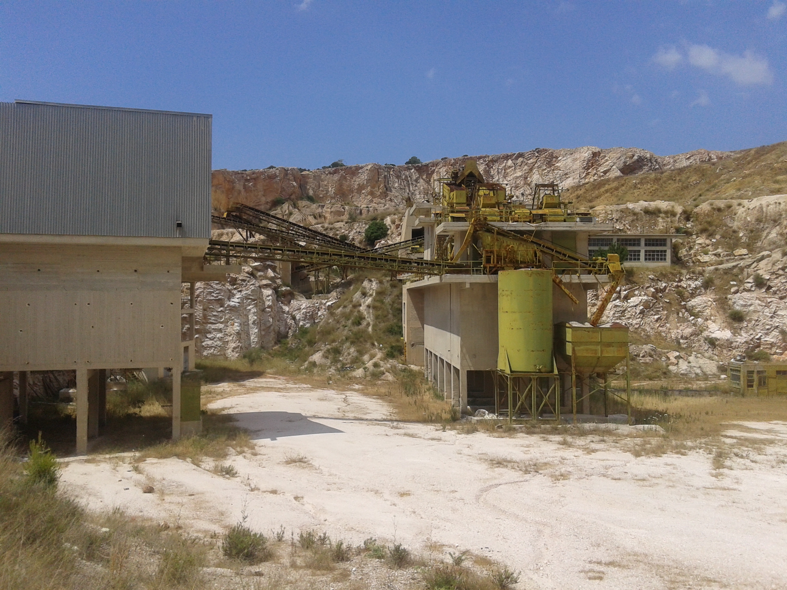 Inactive quarry in attica Greece